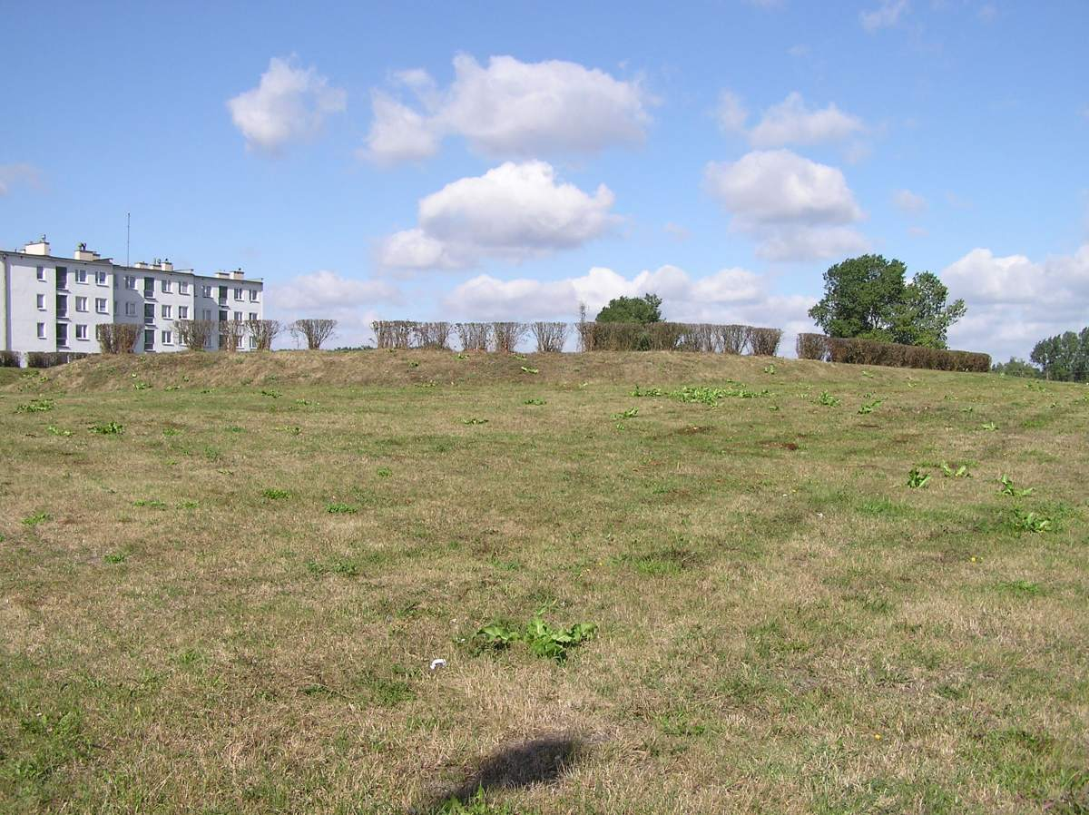 Hill fort in Płońsk